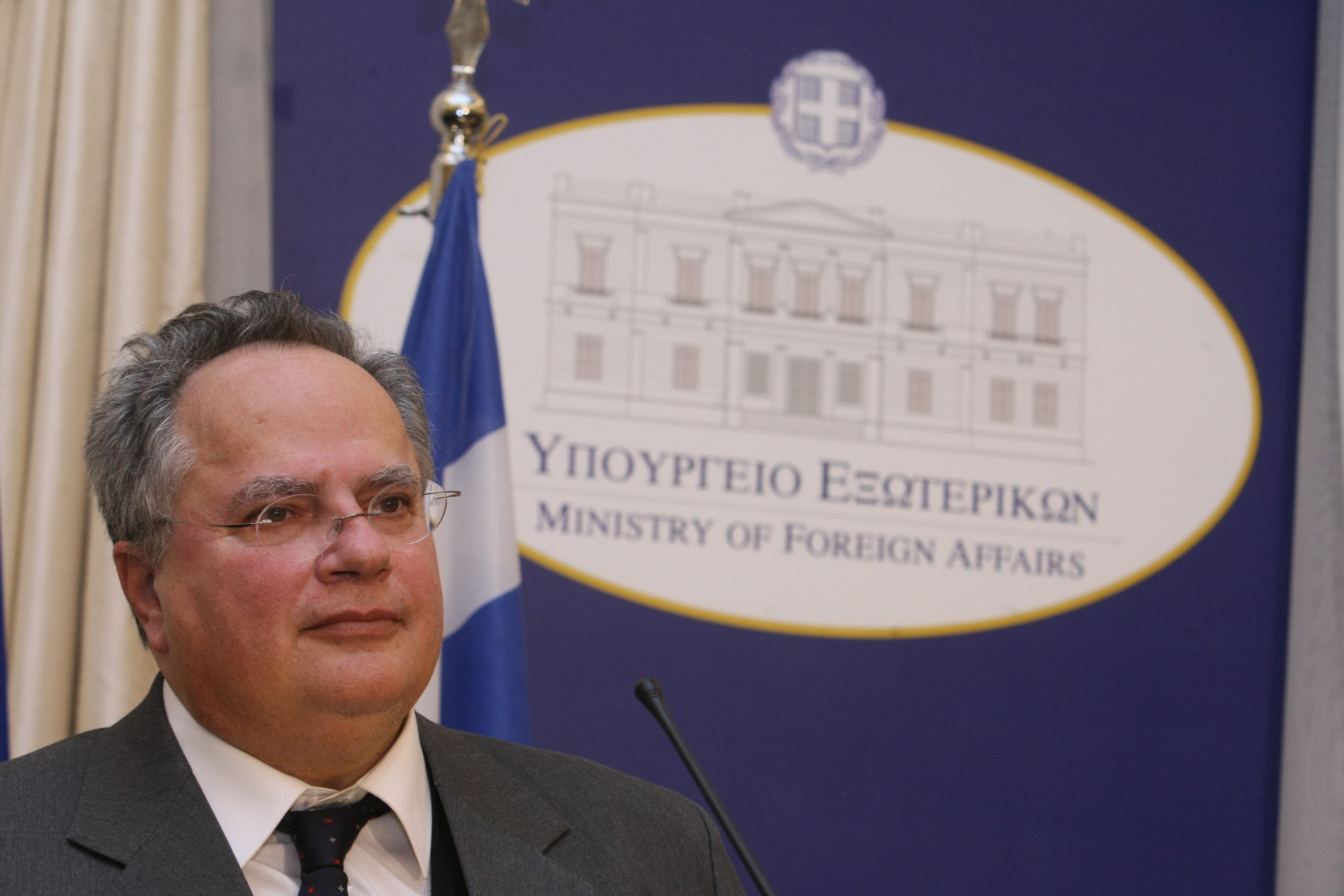 Ceremonial handover of the Greek Ministry of Foreign Affairs to Nikos Kotzias on 27 January 2015